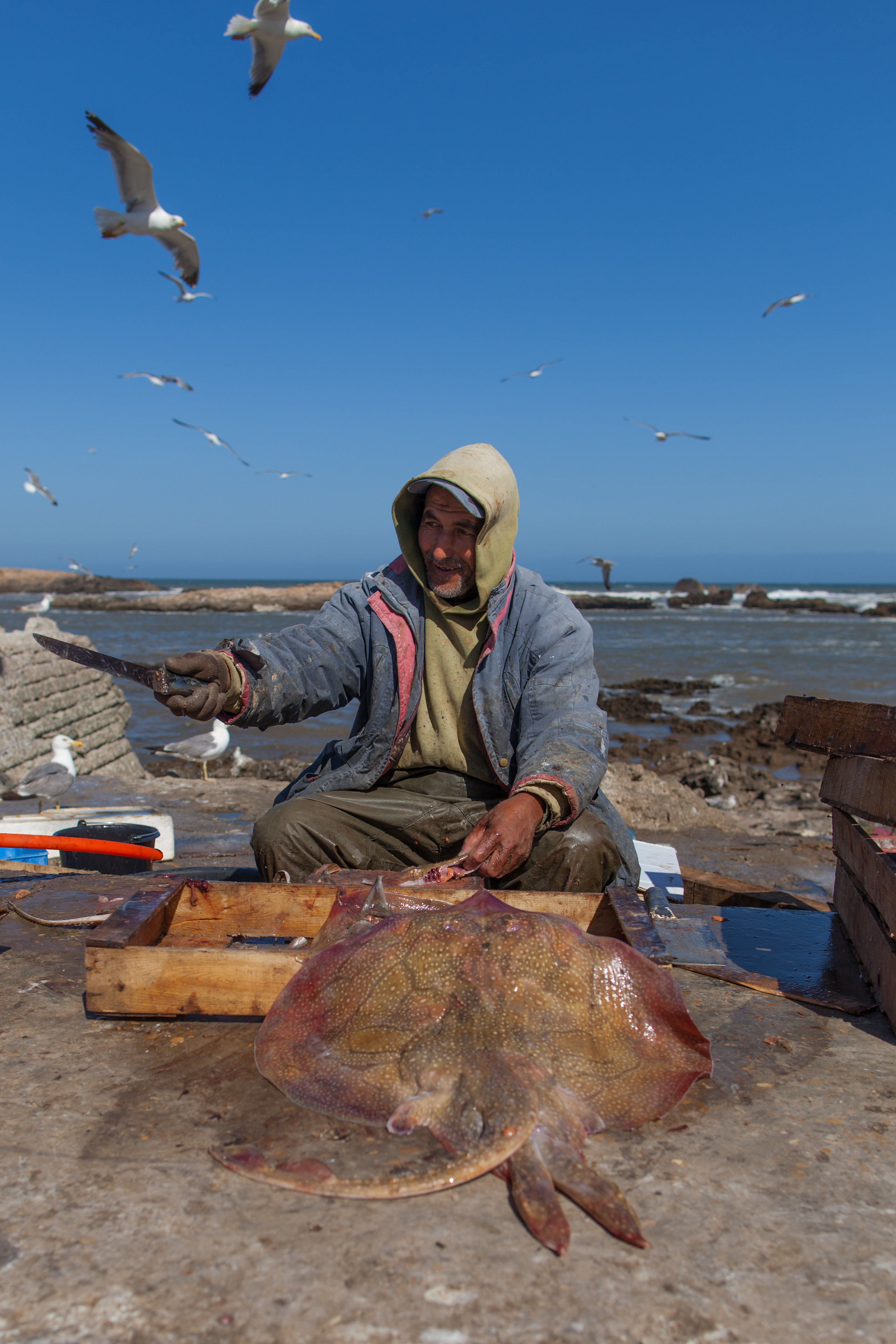 A fisherman back from fishing at sea in the port of Essaouira in Morocco. Seagulls. Atlantic Ocean. Blue sky. Photo. Image.